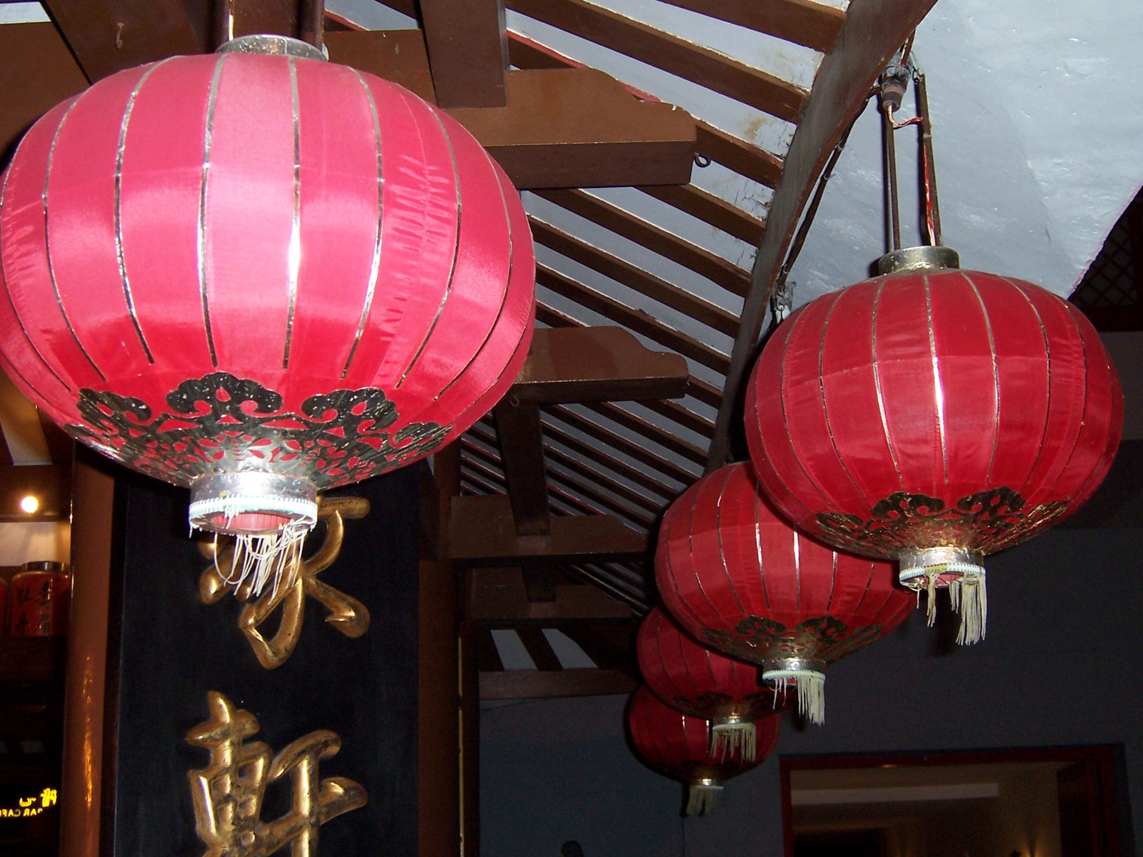 Paper lanterns in the Middle Kingdom display at Ocean Park, Hong Kong. Taken by Enoch Lau on 1 January 2006. As a courtesy, please let me know if you alter this image or this image description page. Original filename was 100_1157.JPG.